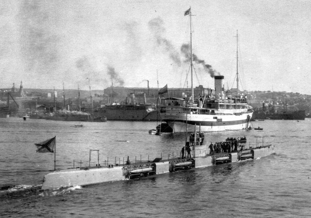 Submarine Morzh and hospital ship Imperator Pyotr Velikiy at Sevastopol.